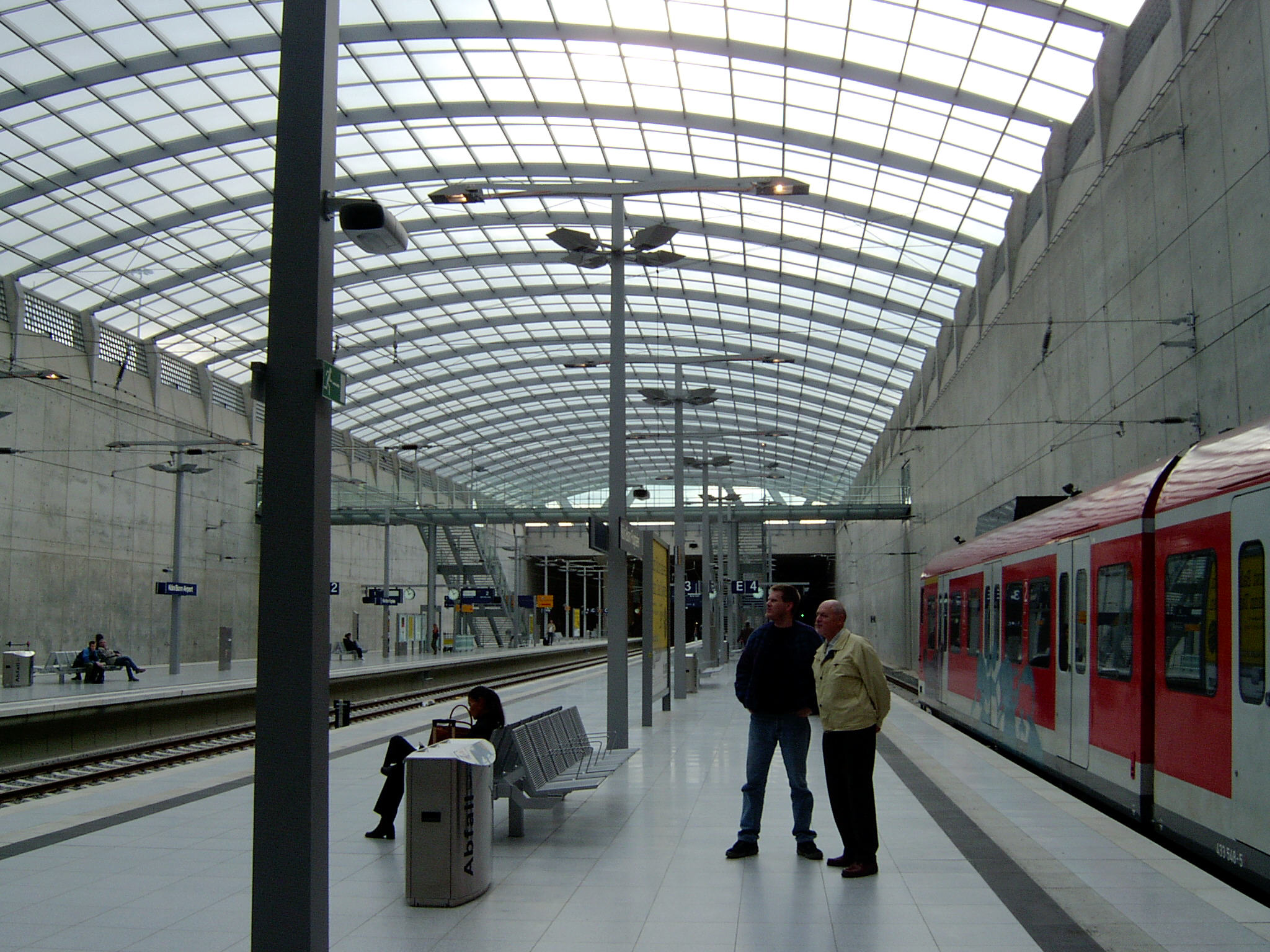 Station at the Cologne Bonn Airport.